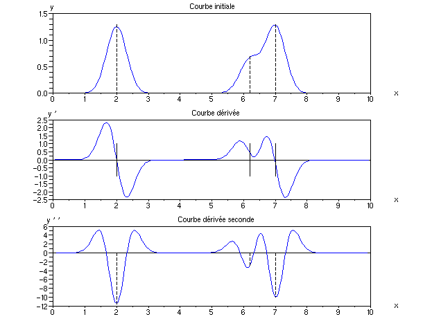 Detection of a peak on a curve using the second derivative. Made with Scilab.